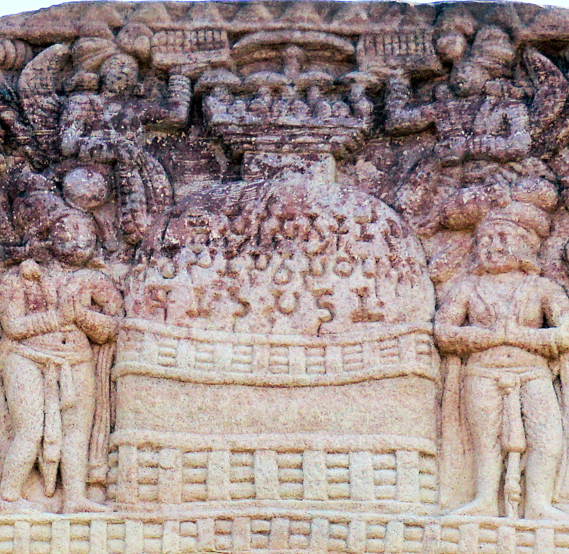 Siri-Satakani inscription Sanchi Stupa 1 Southern Gateway Rear of top architrave. The inscription on the dome of the stupa depicted in the relief reads: "Gift of Ananda, the son of Vasithi, the foreman of the artisans of rajan Siri Satakarni" (Original text "L1: Rano Siri Satakarnisa L2: avesanisa vasithiputasa L3: Anamdasa danam") in John Marshall, "A guide to Sanchi", p.48 Location of the inscription, with arrow